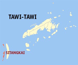 Map of the Tawi-Tawi showing the location of Sitangkai